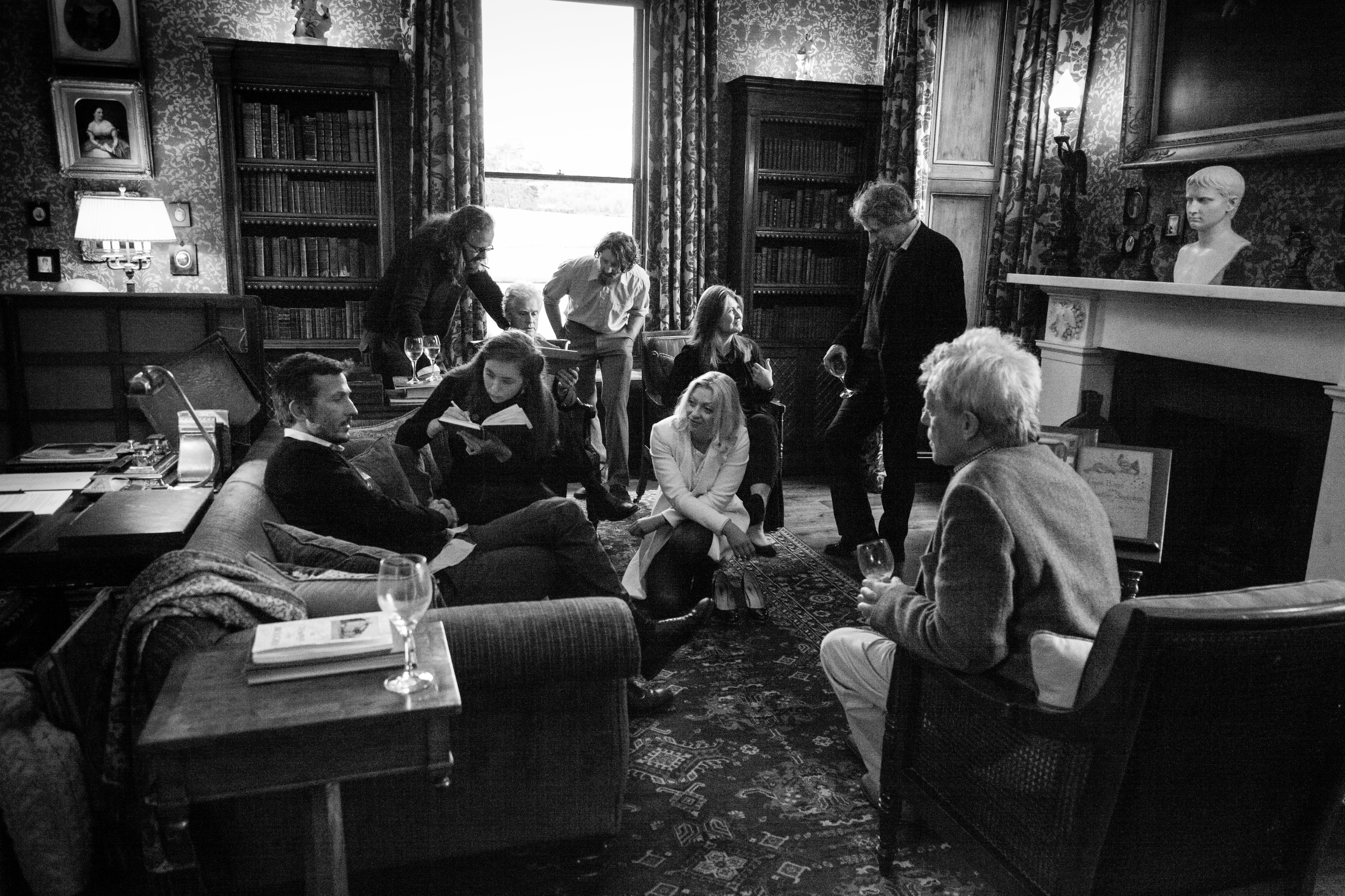 Alpine Fellows at Aldourie Castle, 2014 (copyright digiqualia)